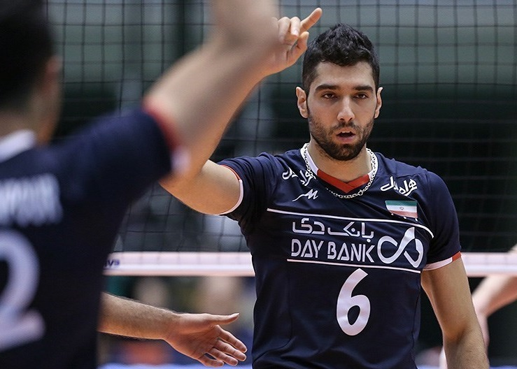 Mohammad Mousavi